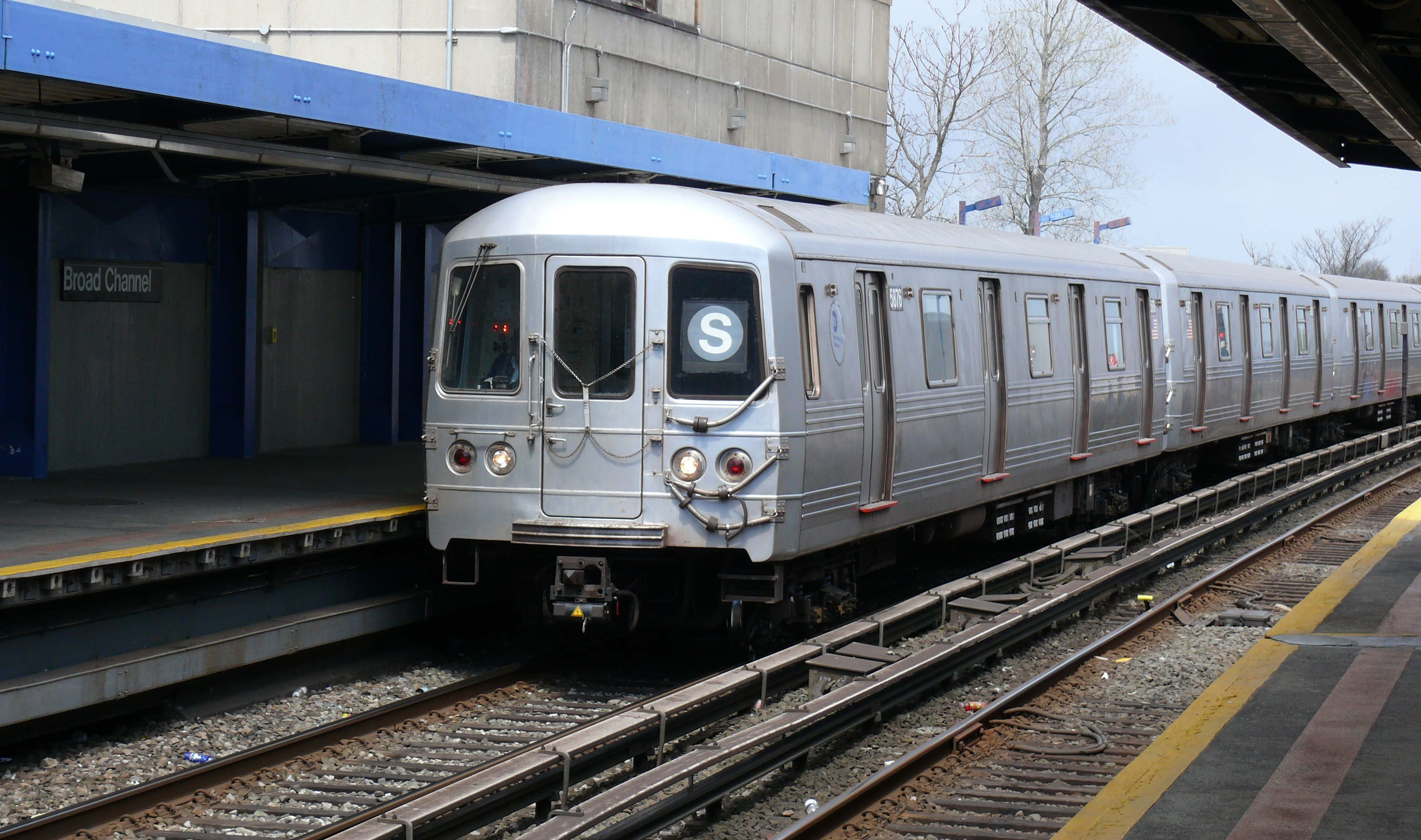 Rockaway Park Shuttle in Broad Channel.